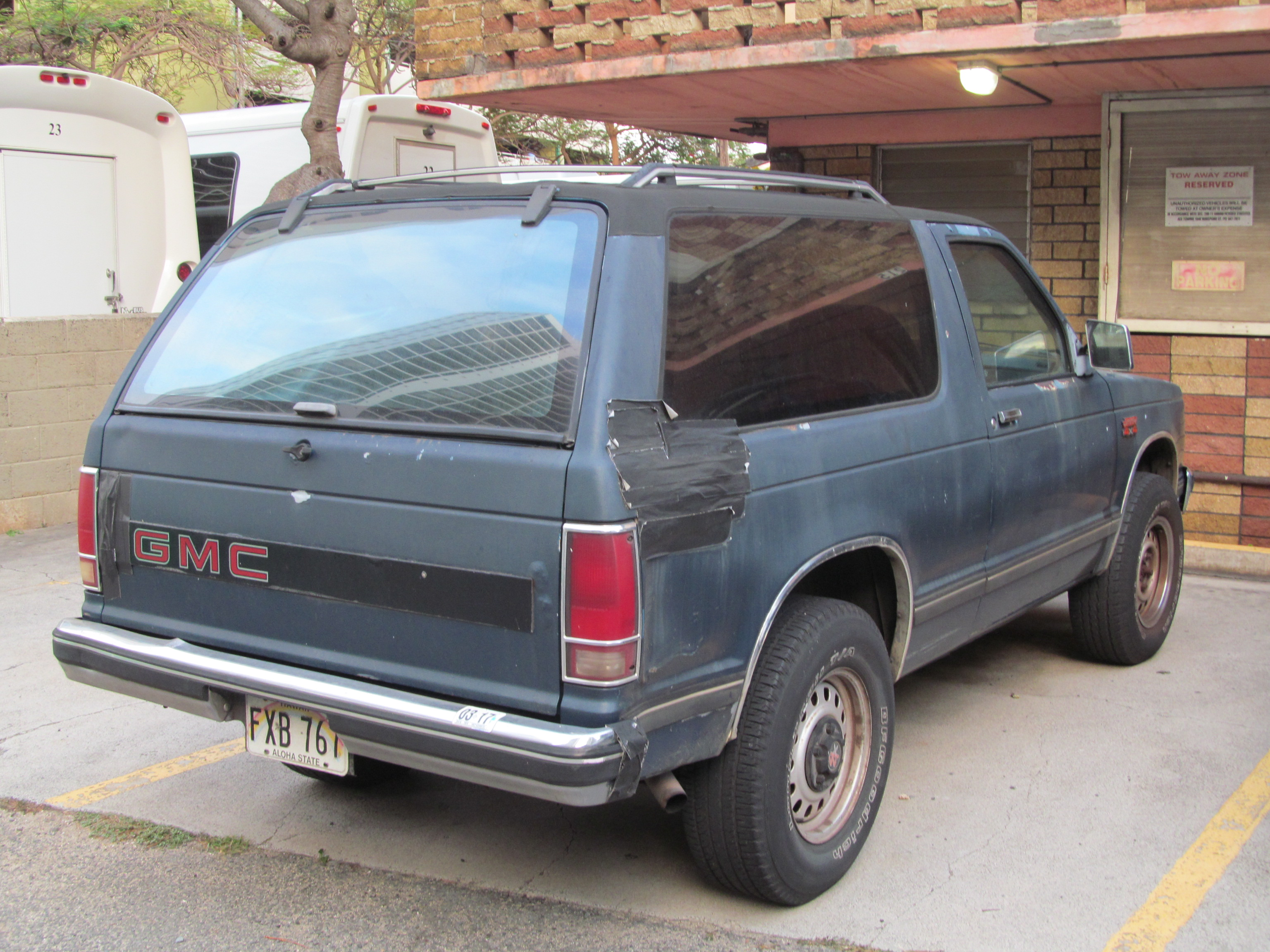 GMC's version of the Chevy Blazer S15. Pretty rough but still battling on.